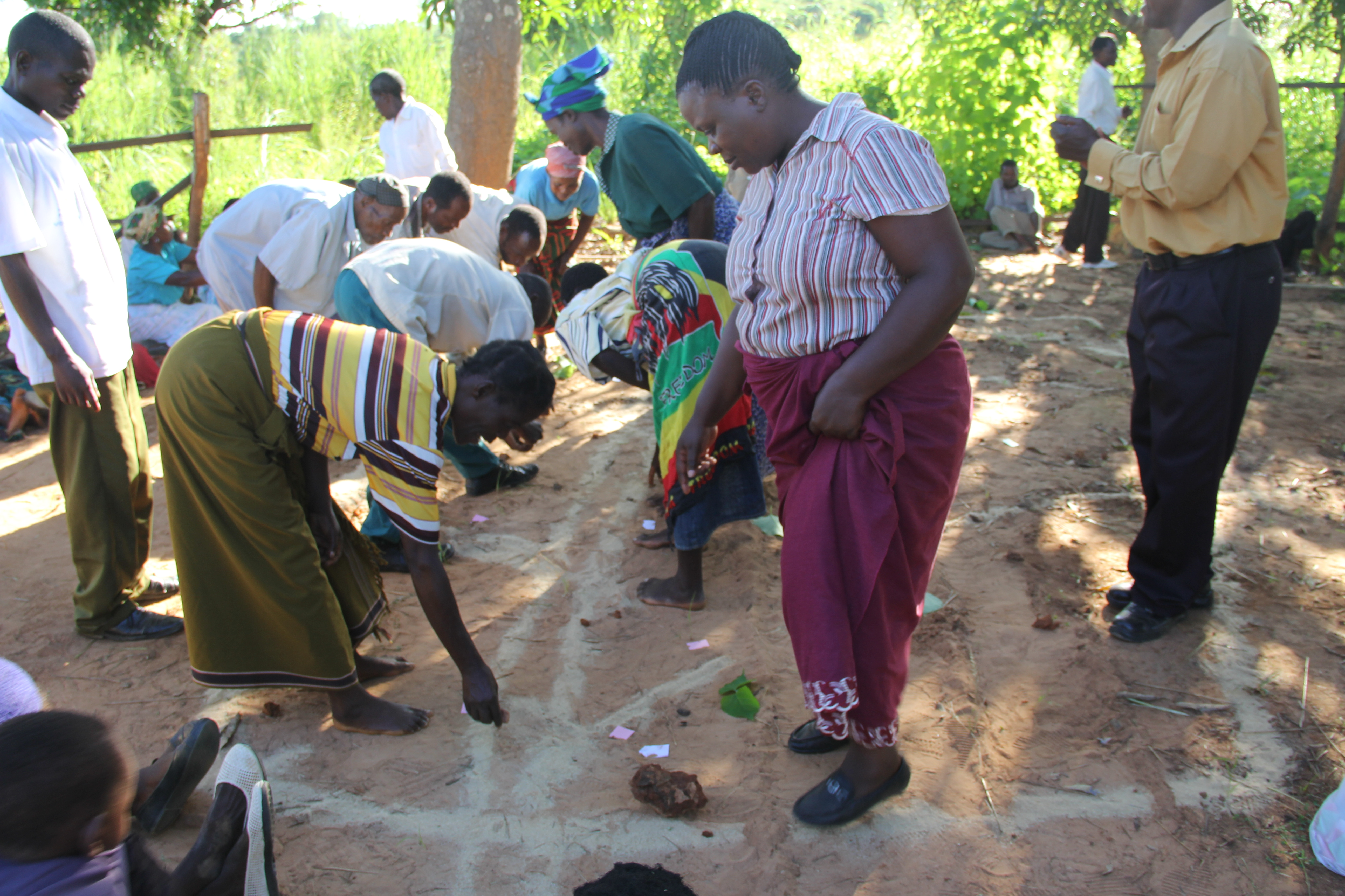 Singo Katanga (center), a health worker, has come to the village to raise awareness of good hygiene in a process known as ‘triggering’. She gets villagers to draw a map of the area, showing the main features like the road and the river.